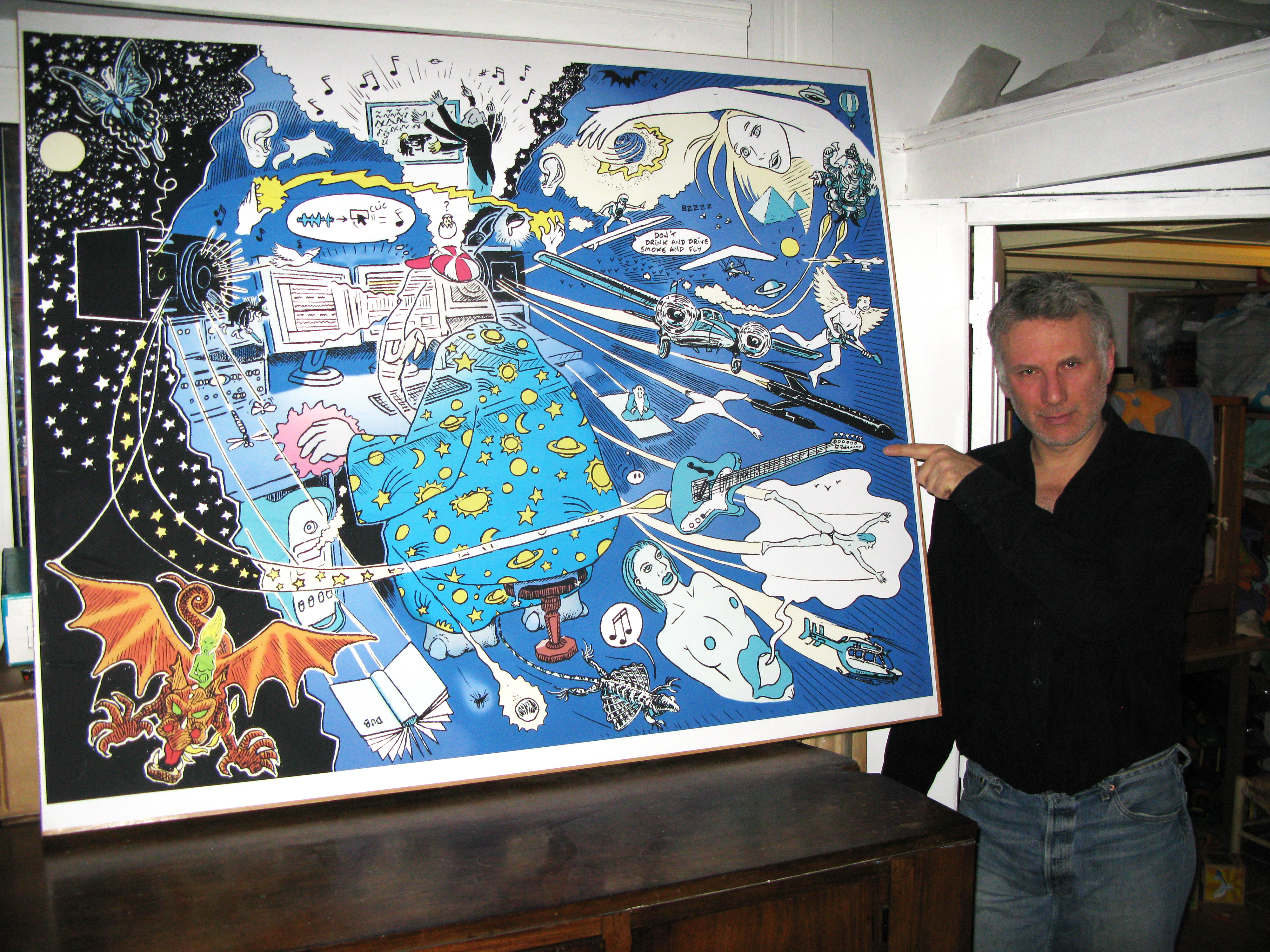 Bruno Blum shows one of his paintings, "Smoke and Fly," showing a dub sound engineer.